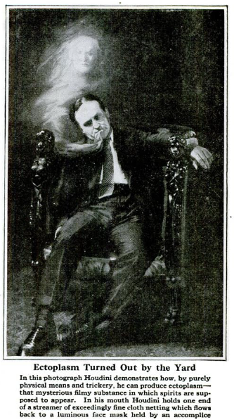 Magician Harry Houdini demonstrating how to fake ectoplasm in a fraudulent spirit photograph.